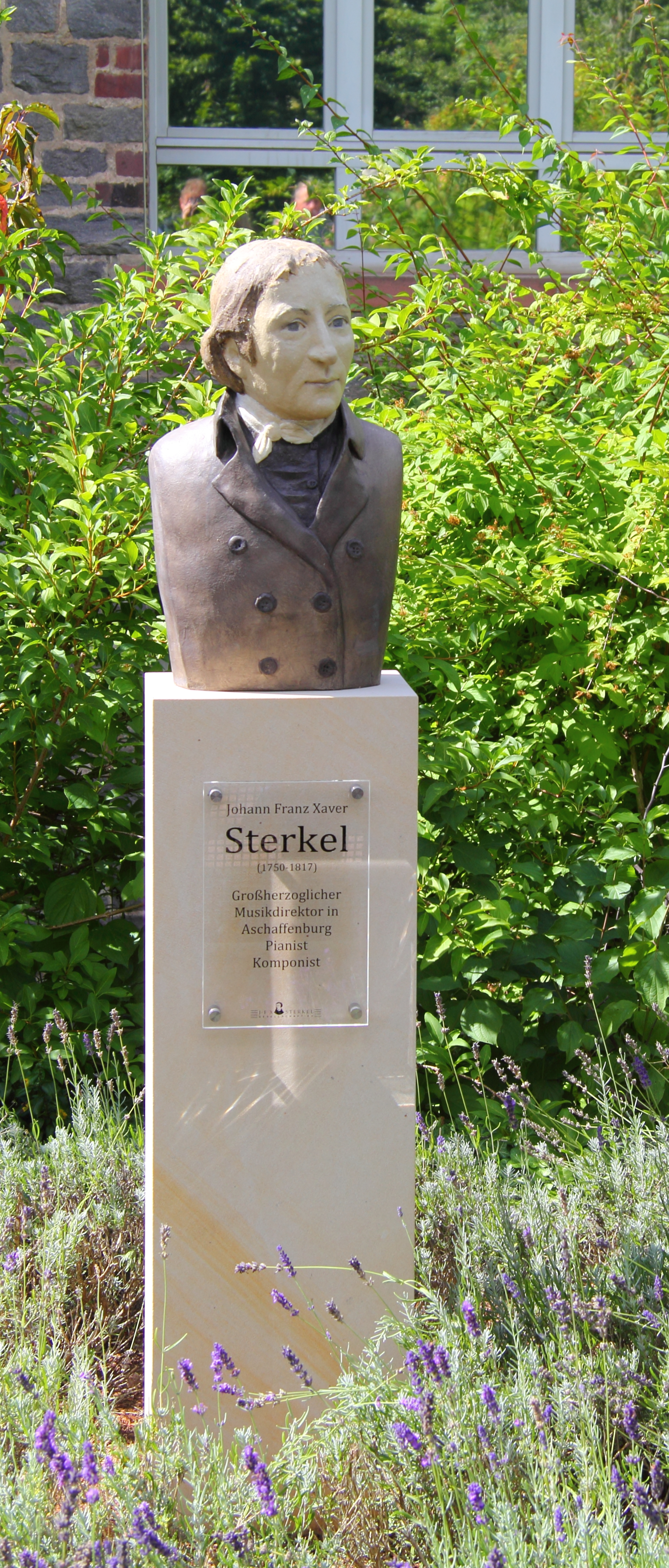 Aschaffenburg, Bavaria/Germany: Bust of Johann Franz Xaver Sterkel, erected in the garden of the municipal music school on July 29, 2017